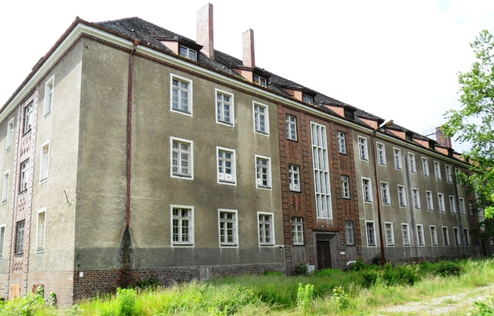 Building 59 Battalion Communications